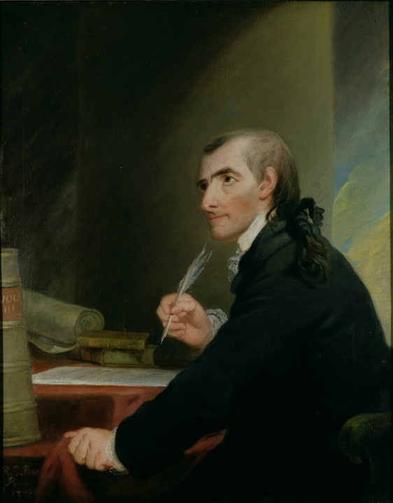 Oil on canvas. Historical Society of Pennsylvania Collection, Philadelphia History Museum at the Atwater Kent, Philadelphia, PA.